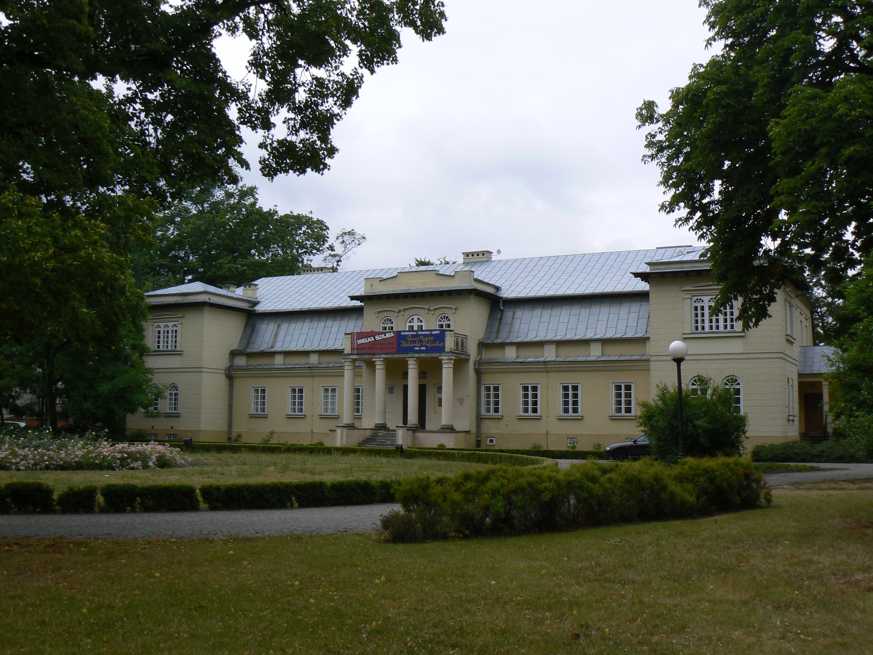 Olszewski's mansion, Bełchatów (east side)